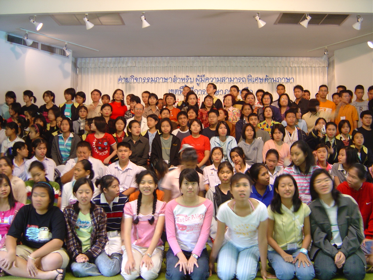 The General Assembly of the Gifted Children of the Northen Thai Educational Area, taken on 2004.10.23.